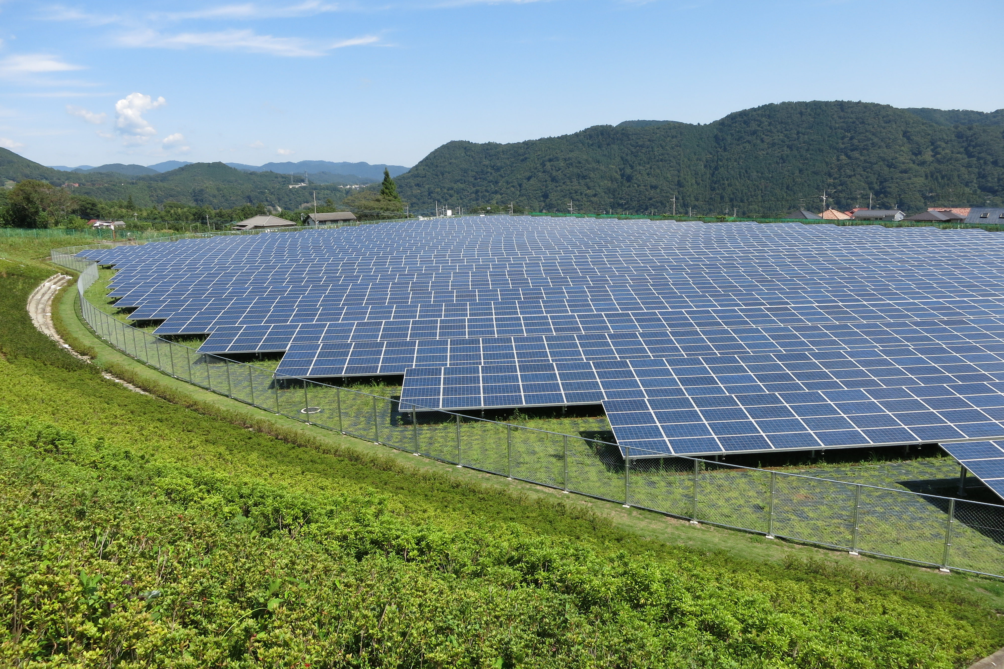 Aikawa Solar Power Plant, Aikawa Town, Kanagawa Pref., Japan.